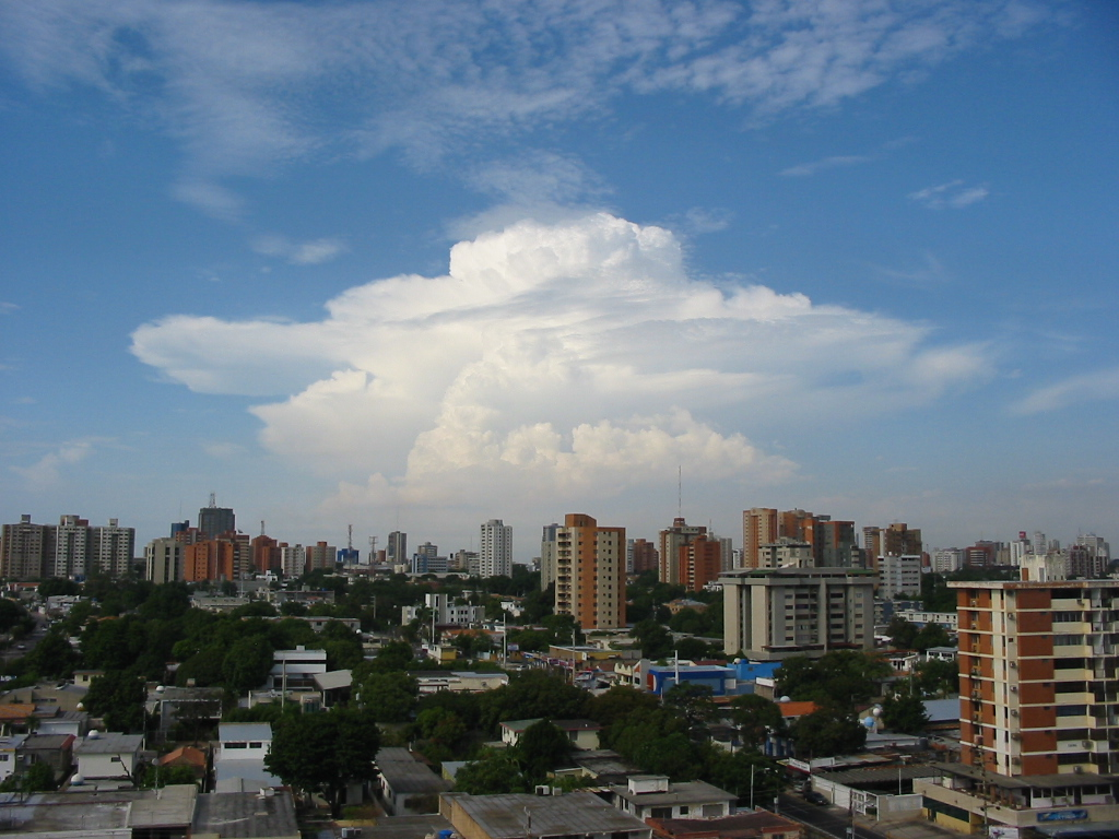 A photograph of the center of the city of Maracaibo in Venezuela, taken from the north (sector Tierra Negra), in direction south, with a giant cloud